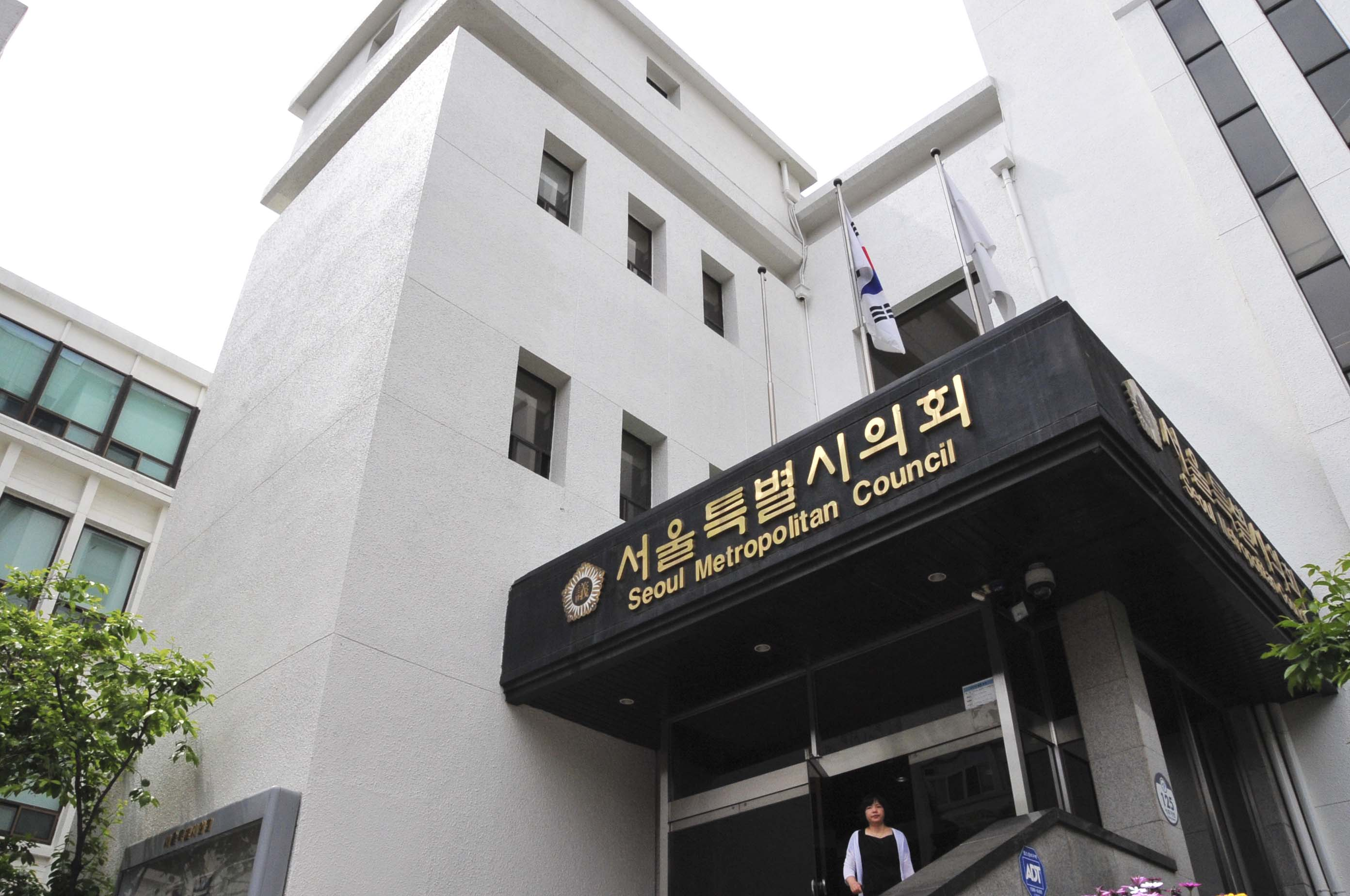 Seoul Metropolitan Council building — former colonial Keijo (Seoul) Public Hall and South Korean National Assembly Building. Built during the Japanese Colonial Korea period (1910-1945).